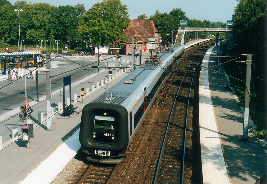 DSB EMU class ET 4537 at the railwaystation of Kokkedal on the railwayline between Helsingør and Copenhagen.